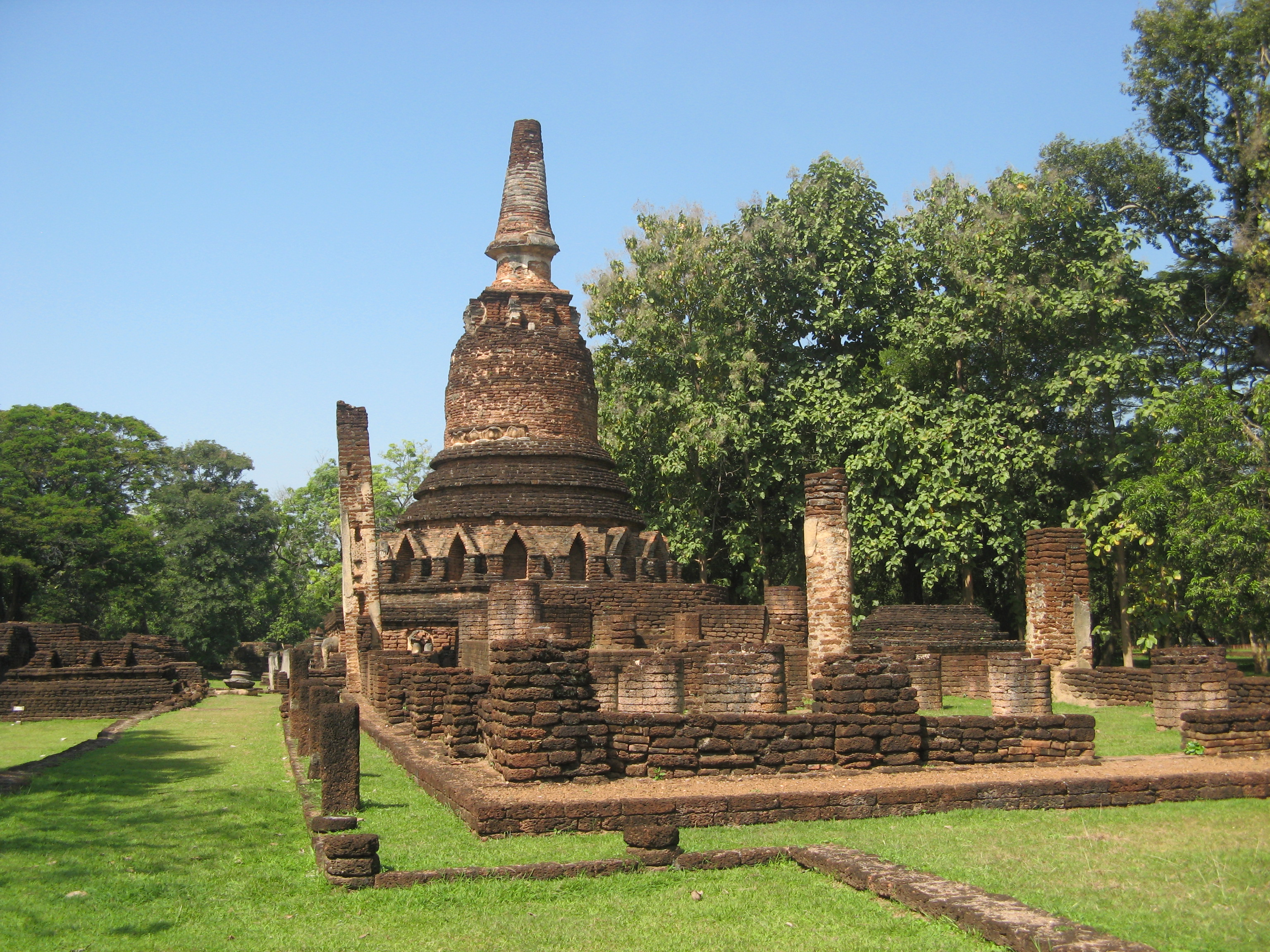 Kamphaeng Phet historical park